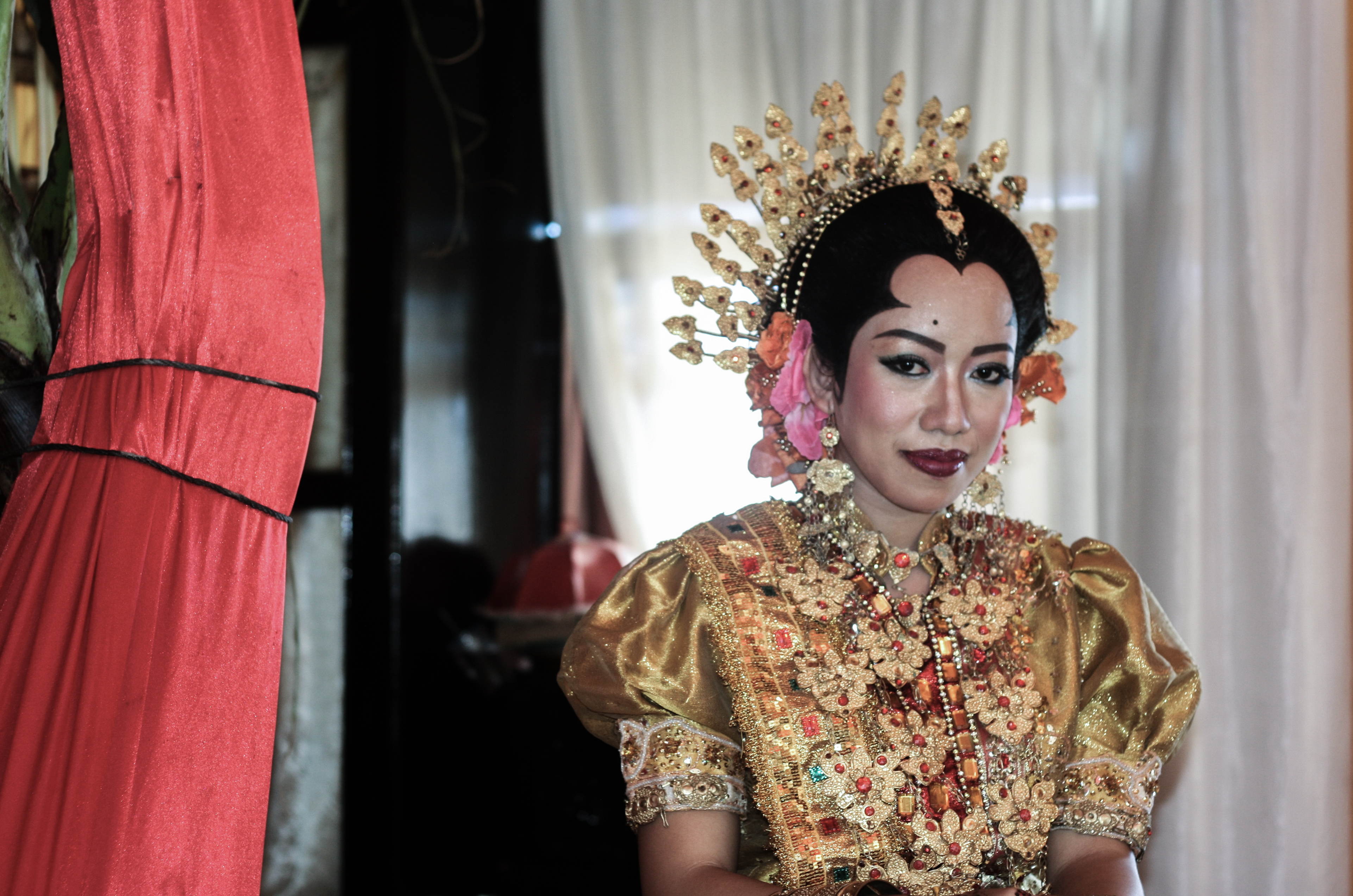 Bride at a wedding ceremony on Selayar Island, South Sulewesi, Indonesia